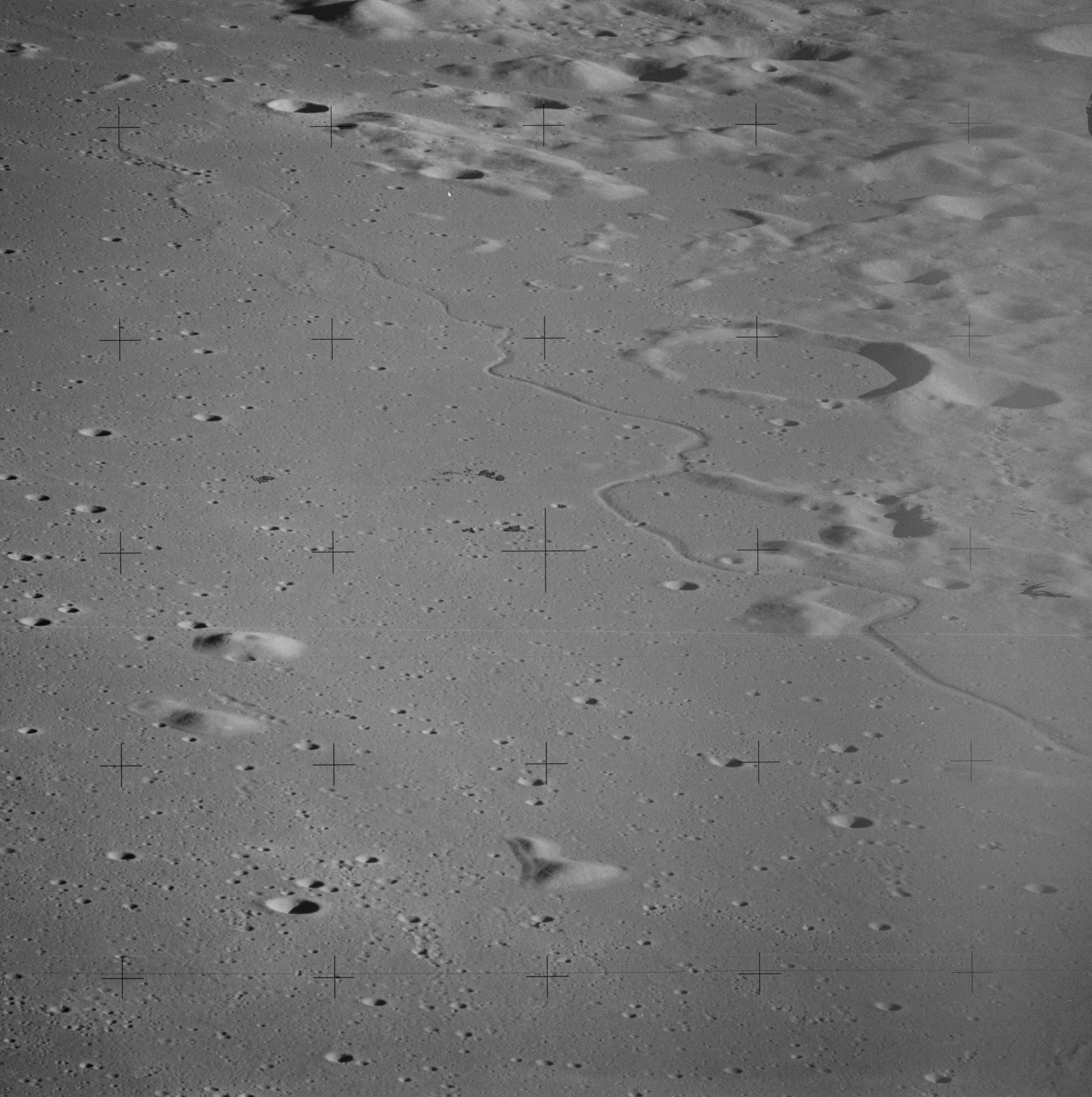 Oblique view of Rima Mairan, Oceanus Procellarum, the moon. The mound at left with the summit crater may be a lunar dome.